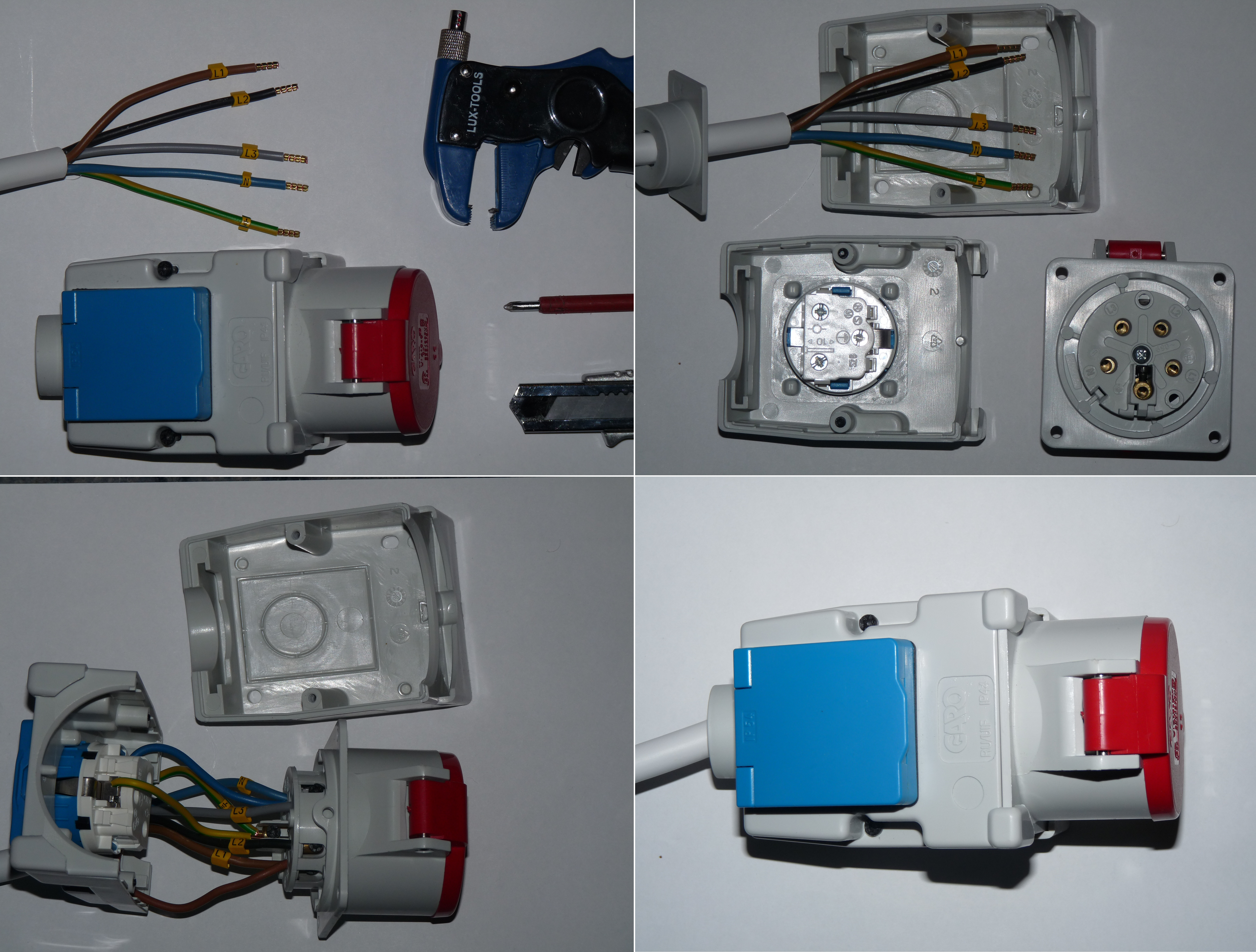 How to wire 16A combined socket (3P 400V). Perfectly might be used in garage, if you want to use air compressor or air heater or welding.